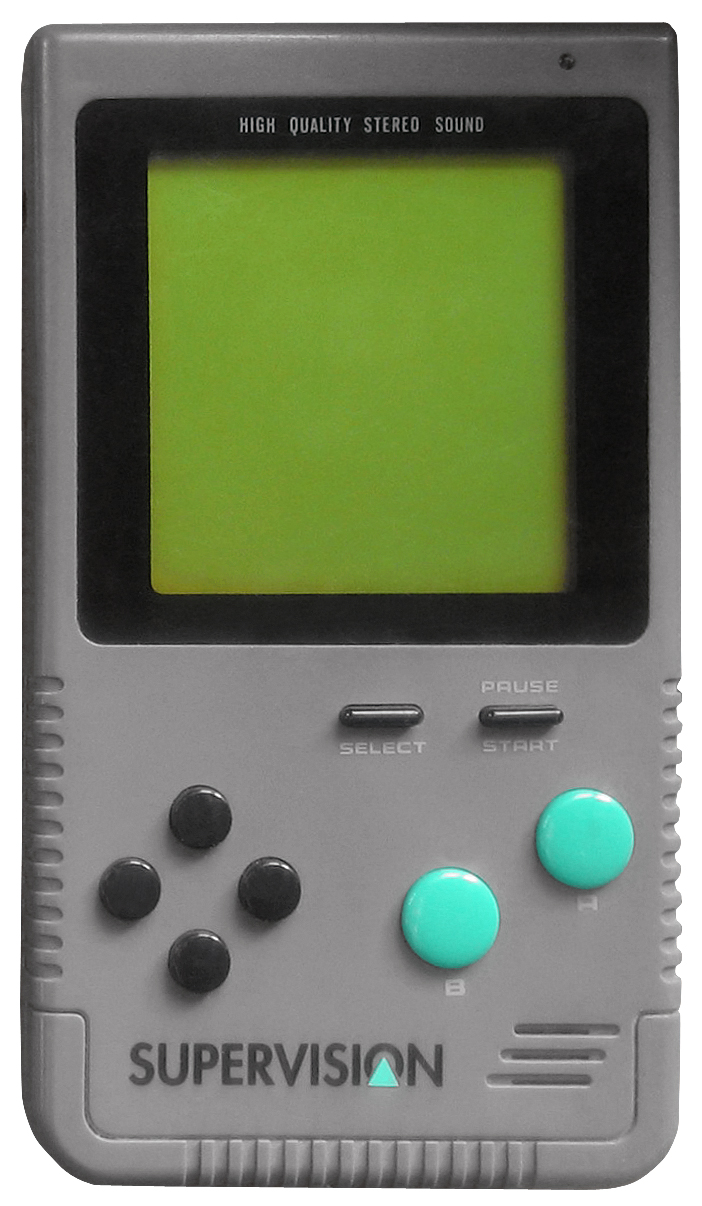 Picture of the Watara Supervision game console